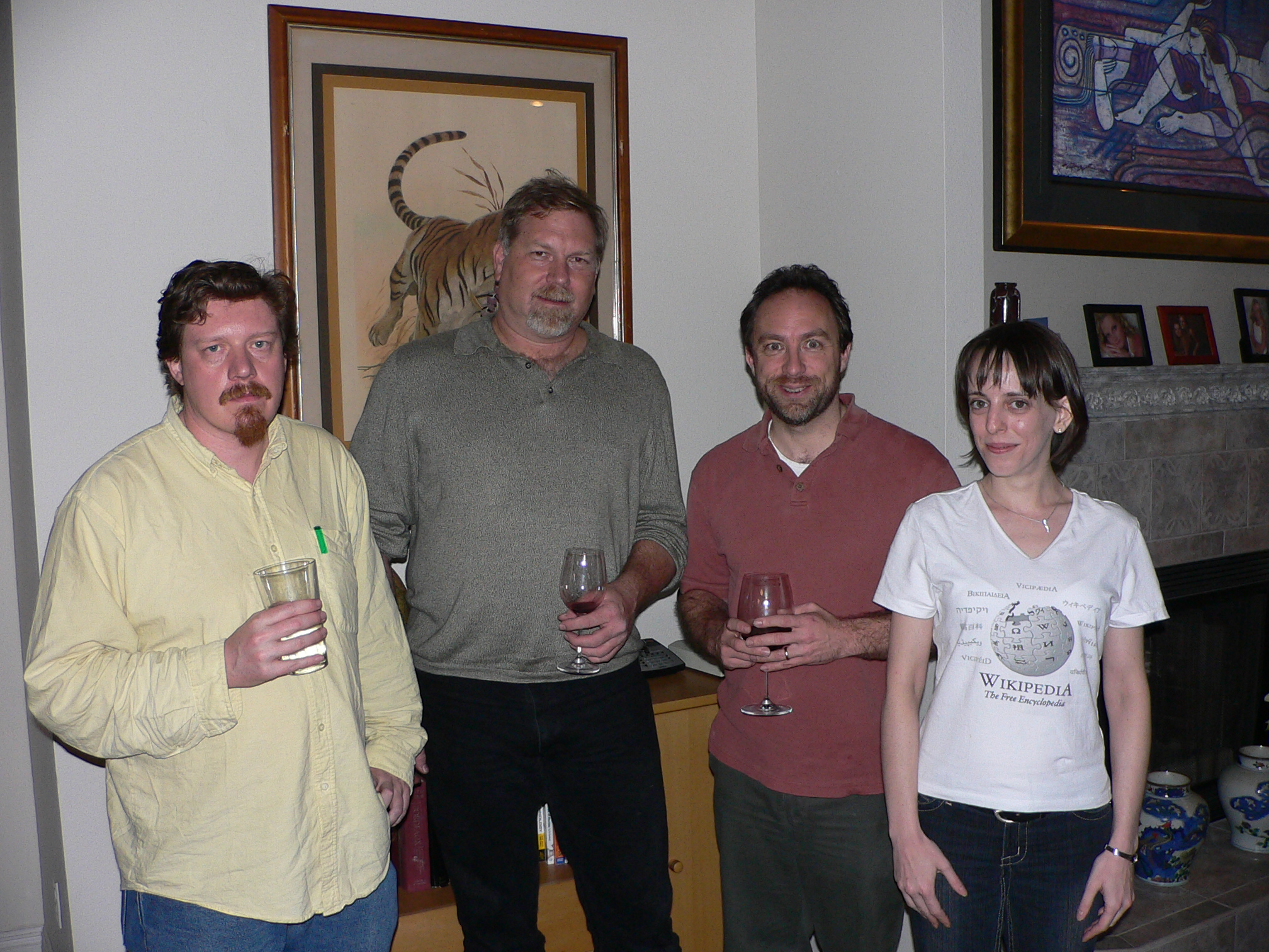 Pictures/movies from the St. Petersburg meetup - January 14, 2006.